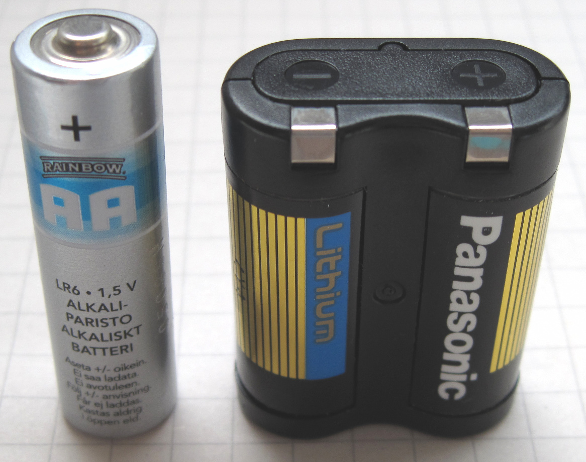 A 6V 2CR5 lithium camera battery next to an AA battery for comparison.